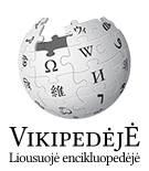 Wikipedia logo 2.0